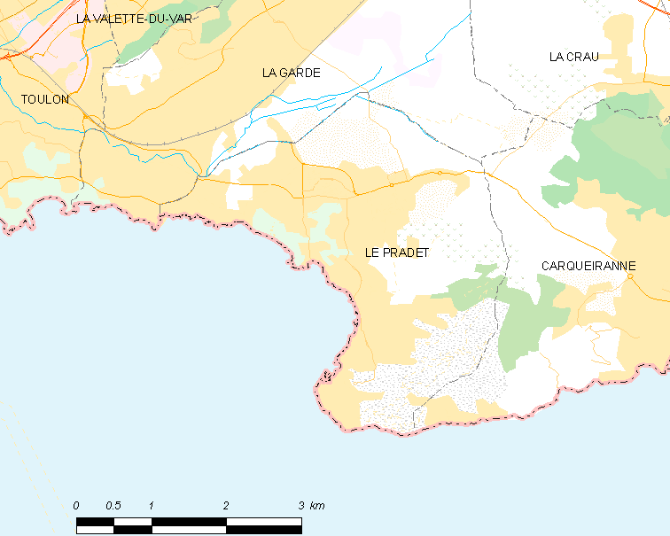 Map of French municipality Le Pradet